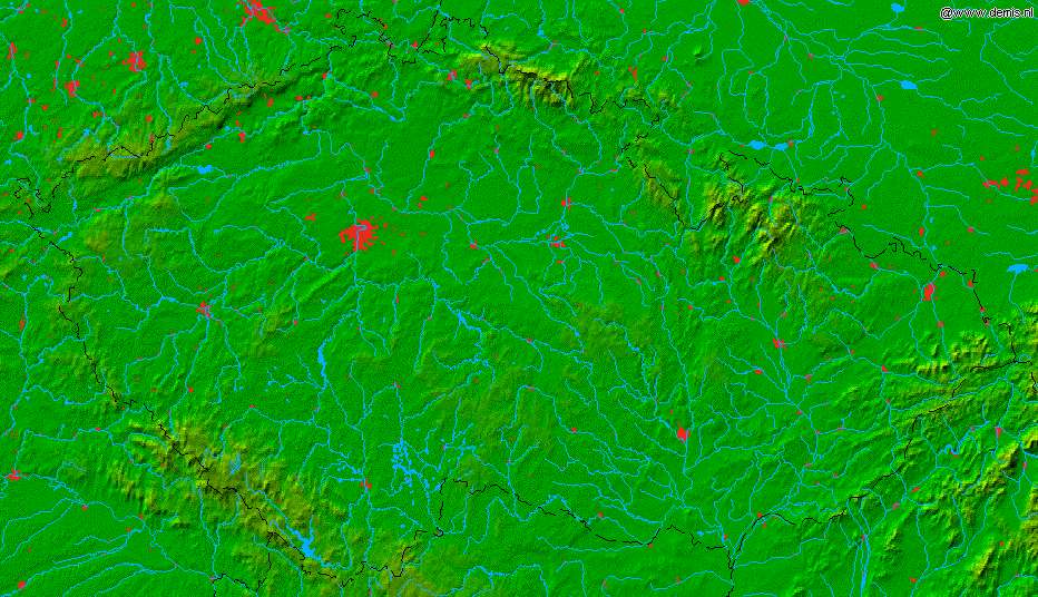 Czech Republic. Bounding box West 12°, South 48.5°, East 19°, North 51.1°. Center at 49°48′00″N 15°30′00″E / 49.80000°N 15.50000°E.